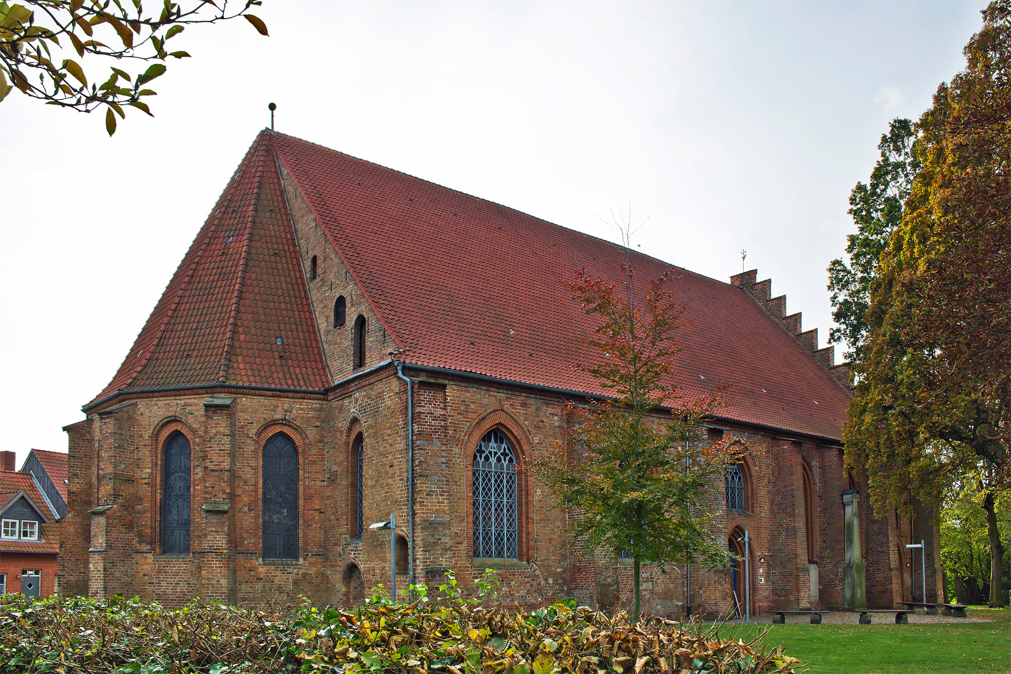 Church of the small town Lüchow (district Lüchow-Dannenberg, northern Germany).